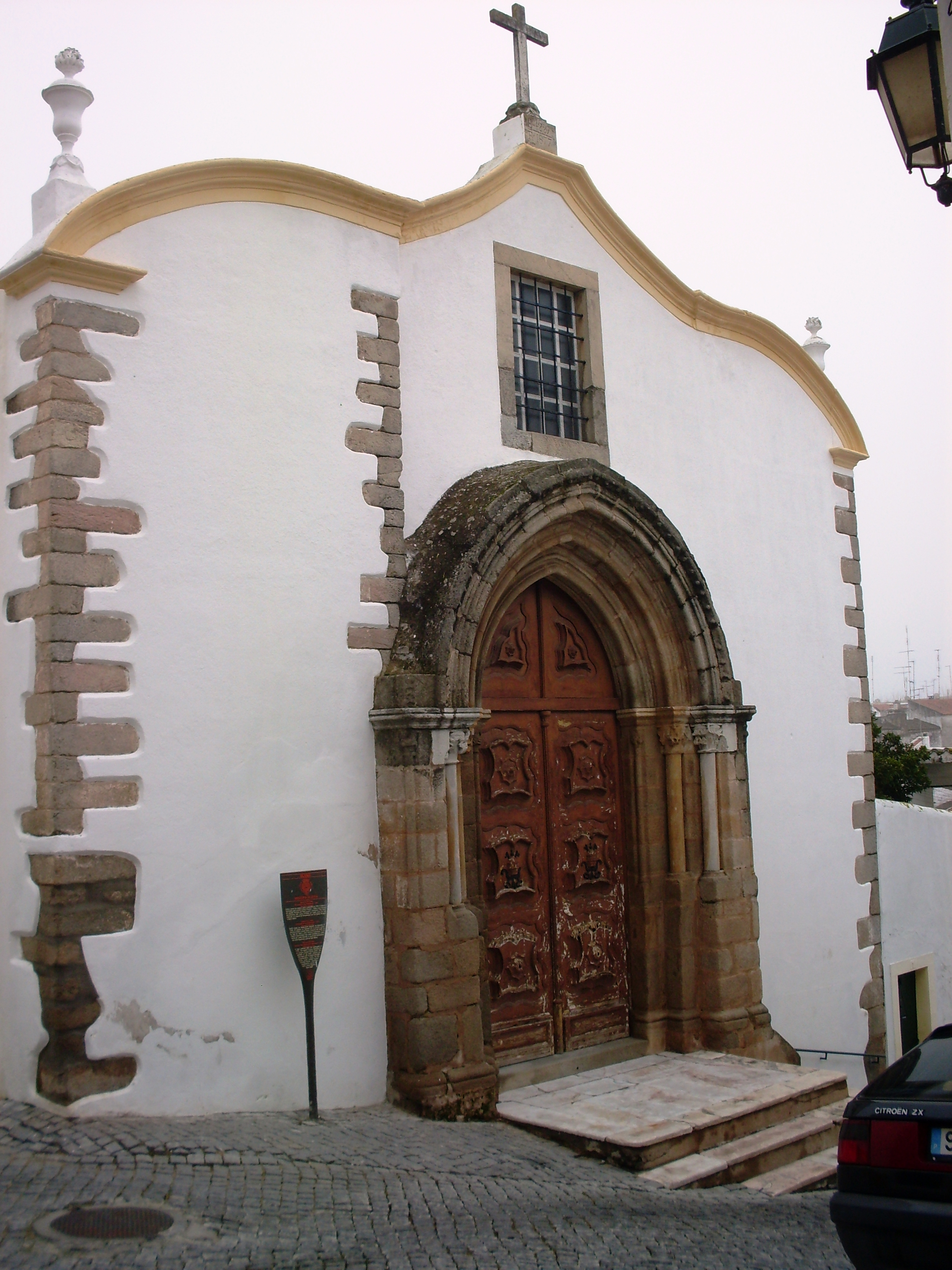 Facade of the Church of São Pedro — Elvas.